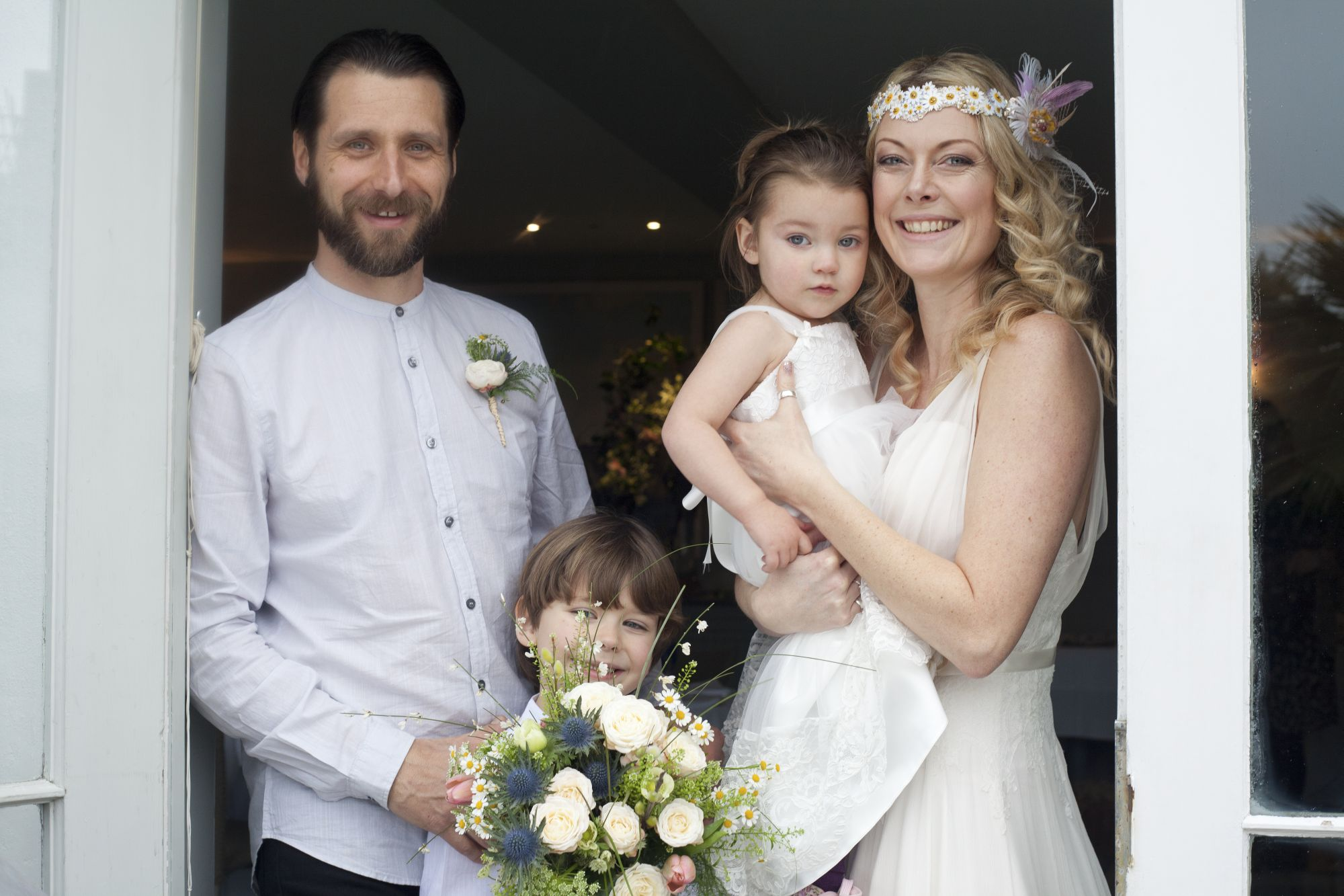 Married couple.